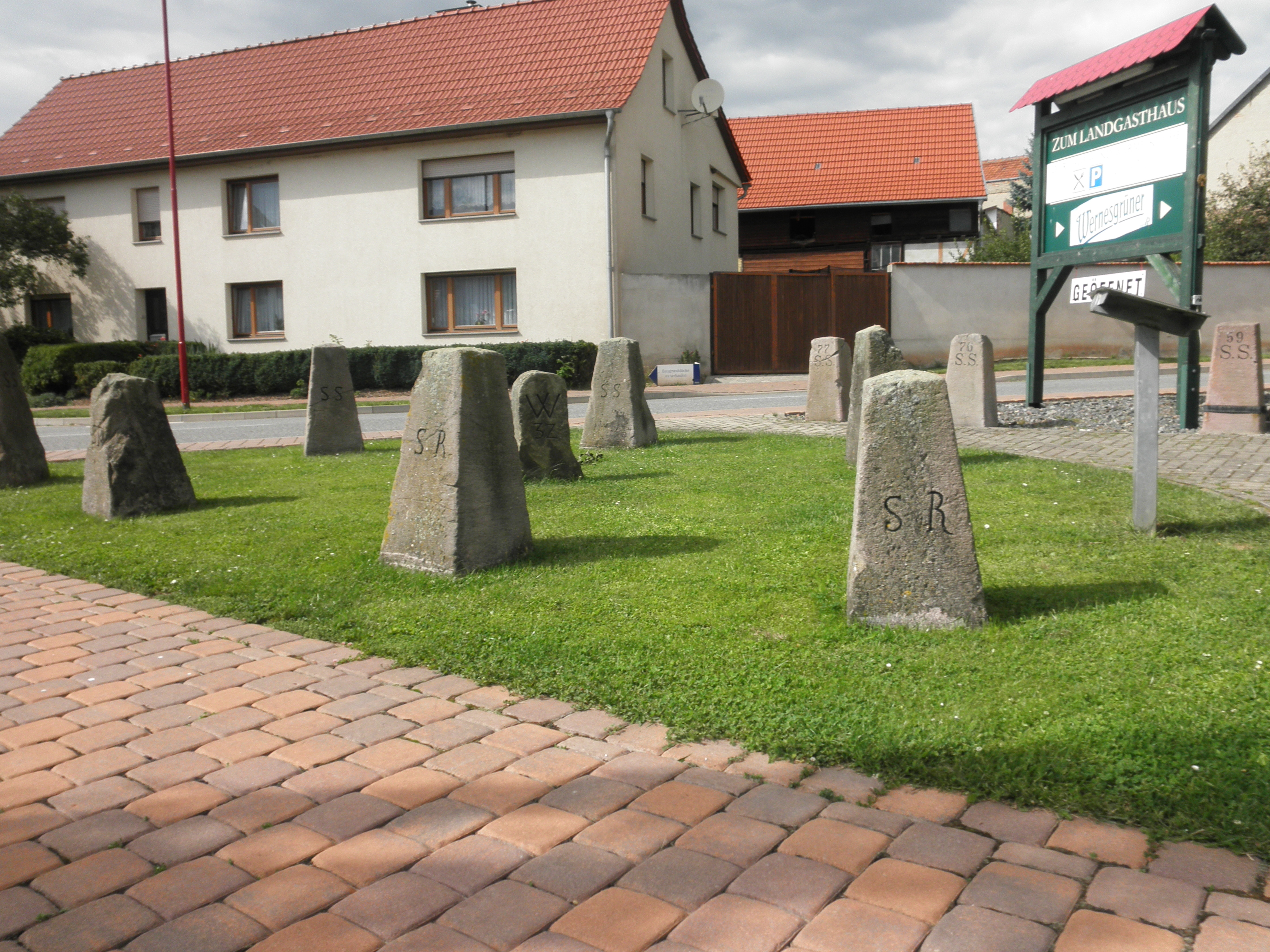 Boundery Stones in Badra in Thuringia